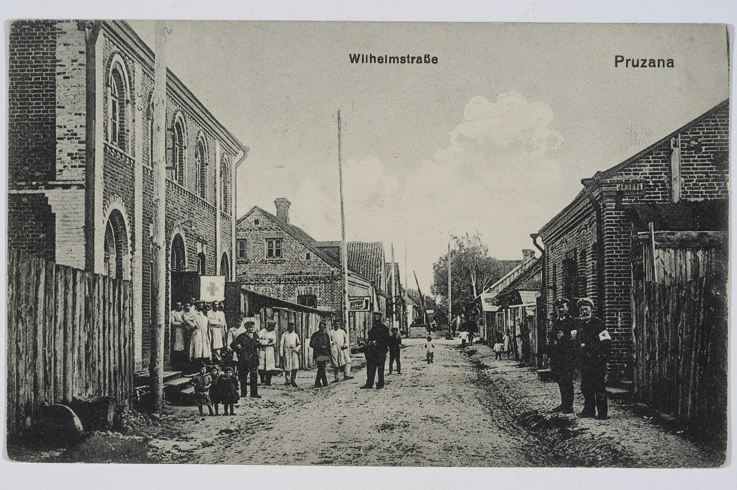 Wilhelmstraße, Pruzhany. Synagogue on the left. 1917